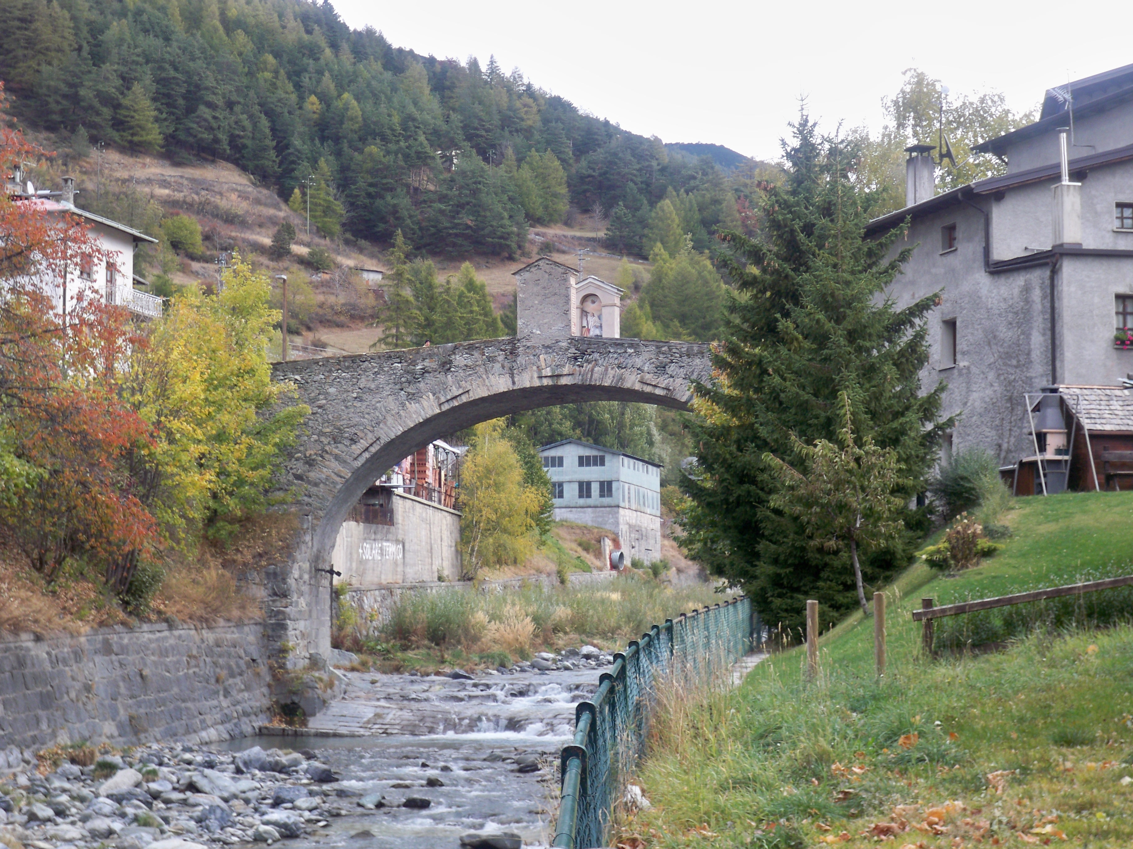 Combo bridge in Bormio (SO), Italy